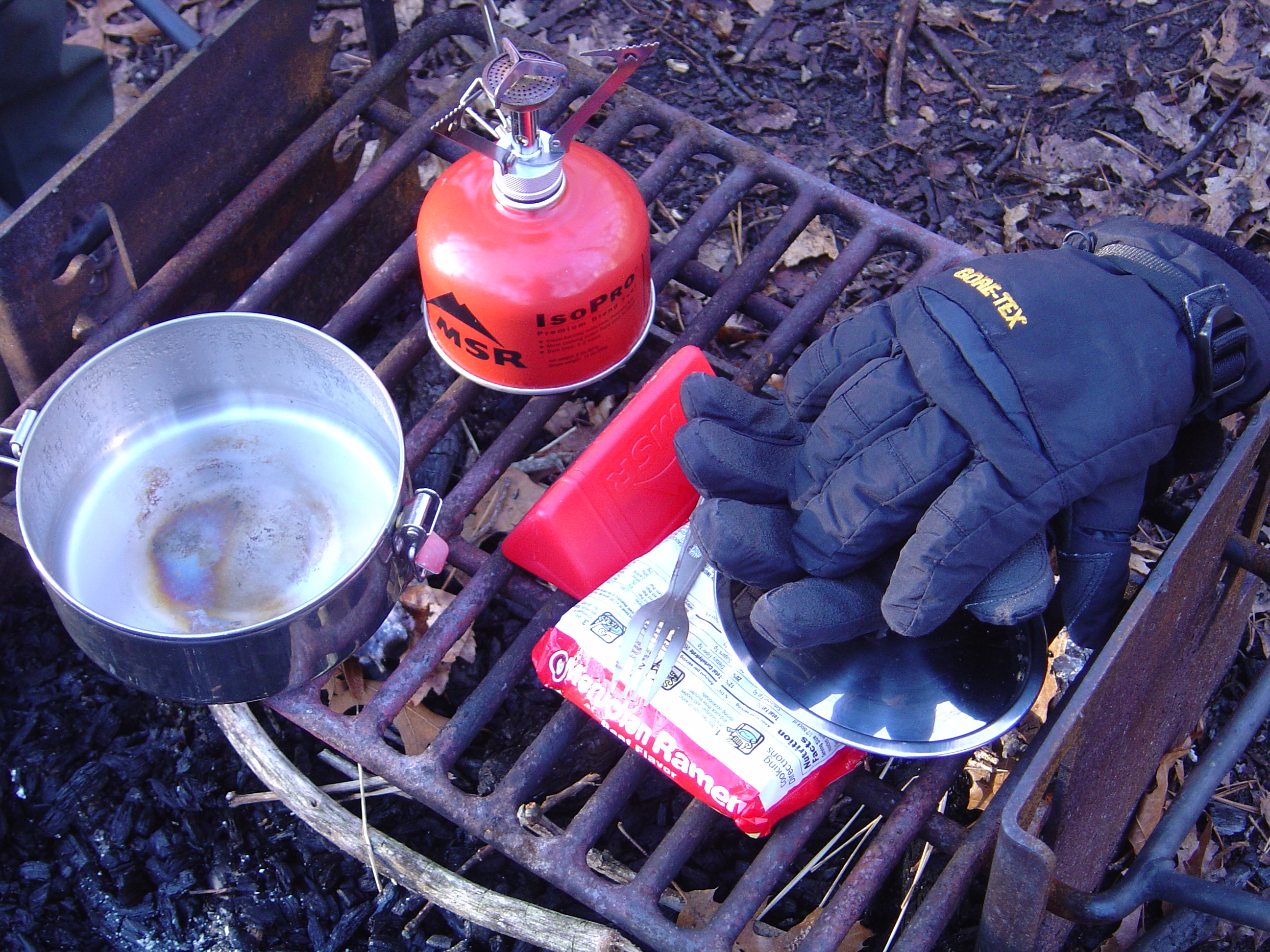 A typical back-country kitchen setup.